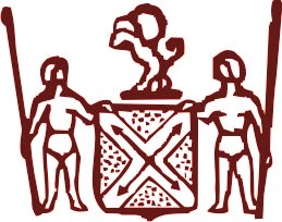 Coat of arms of Coronda, a city in Santa Fe Province.